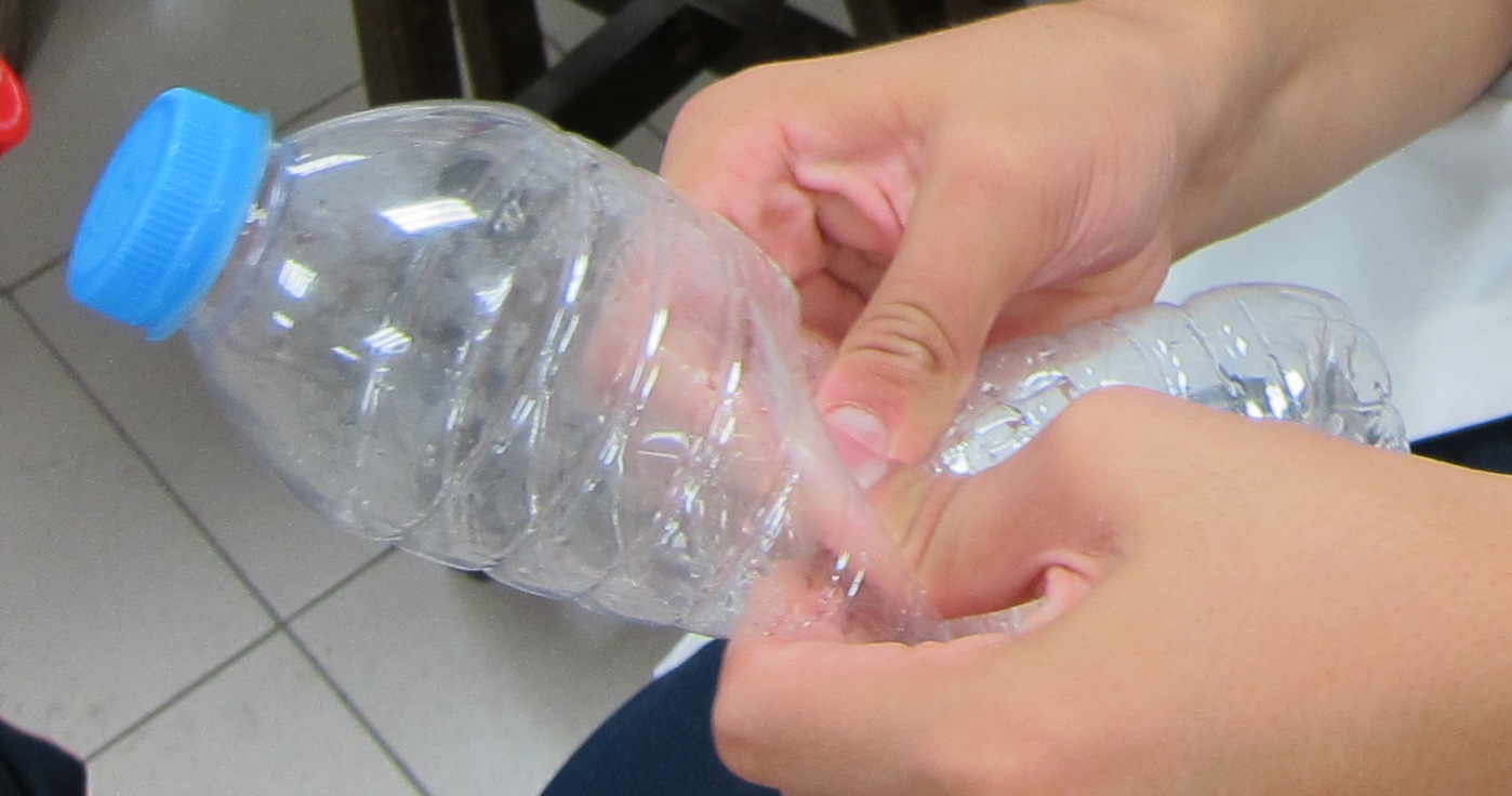 condensation core containing bottle with adiabatic compression